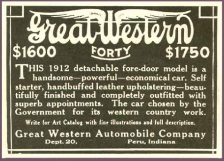 1912 advertisement of the Great Western Automobile Co., Peru, Ind., describing their type Forty automobile. The Company was a Reorganisation of the Model Automobile Co., a subsidiary of a well-known engine builder, and the car was a relabeled Star Model 40